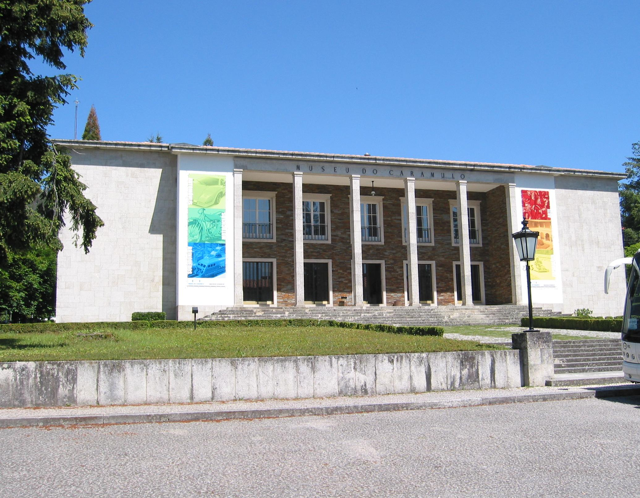 Building of the Car Museum in Caramulo, Portugal